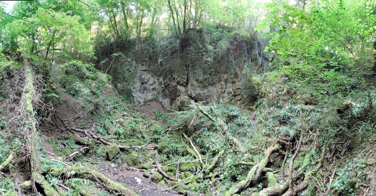 Puritan's Pit, Bradley Woods near Newton Abbot, Devon, England.